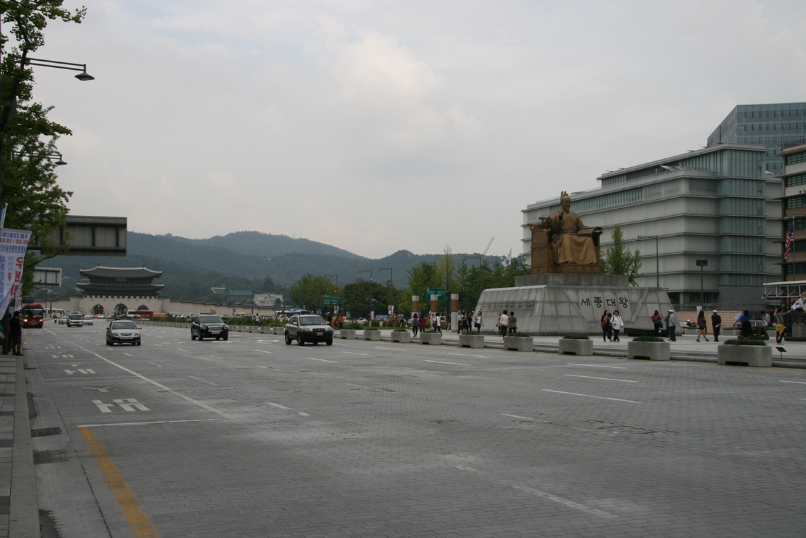 Sejong-ro (aka Sejongno) in Jongno-gu, Seoul, South Korea in 2012, after the deduction from 16-lanes to 10-lanes of traffic, following the construction of Gwanghwamun Plaza with the statues of the King Sejong the Great of Joseon on the right and Gwanghwamun on the left.